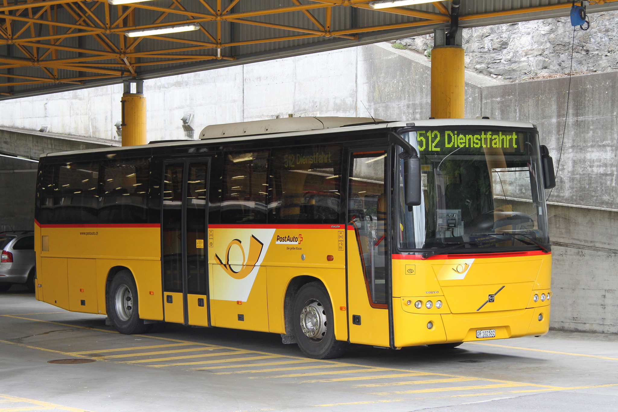 Volvo 8700 B12B postal bus (number plate GR 102502) at Thusis train station.